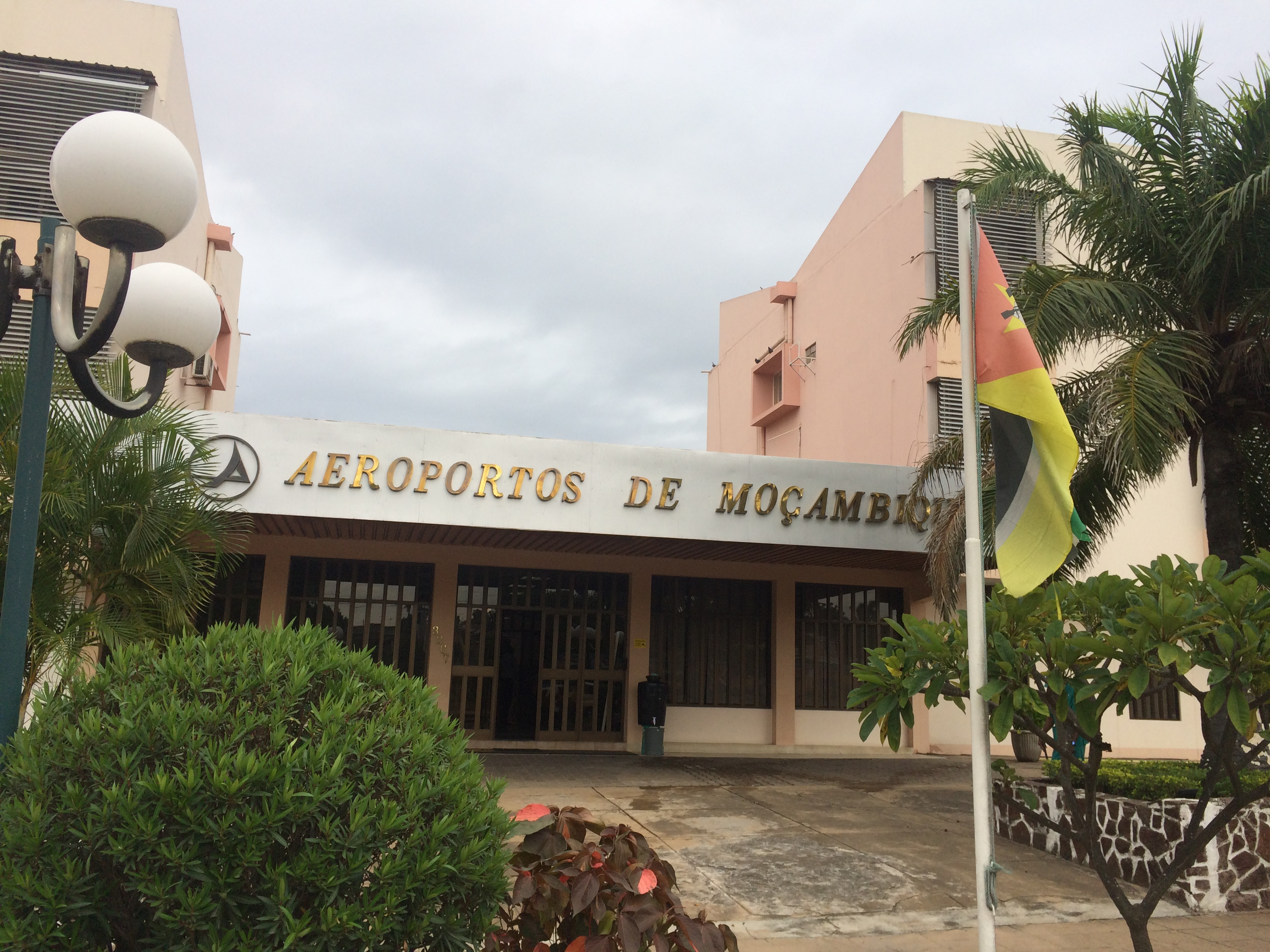 Seat of "Aeroportos de Moçambique", Maputo, Mozambique